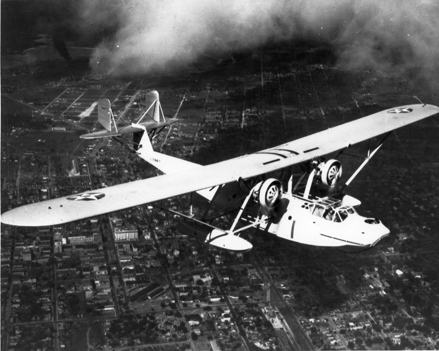 Martin P3M-2, VP-10S